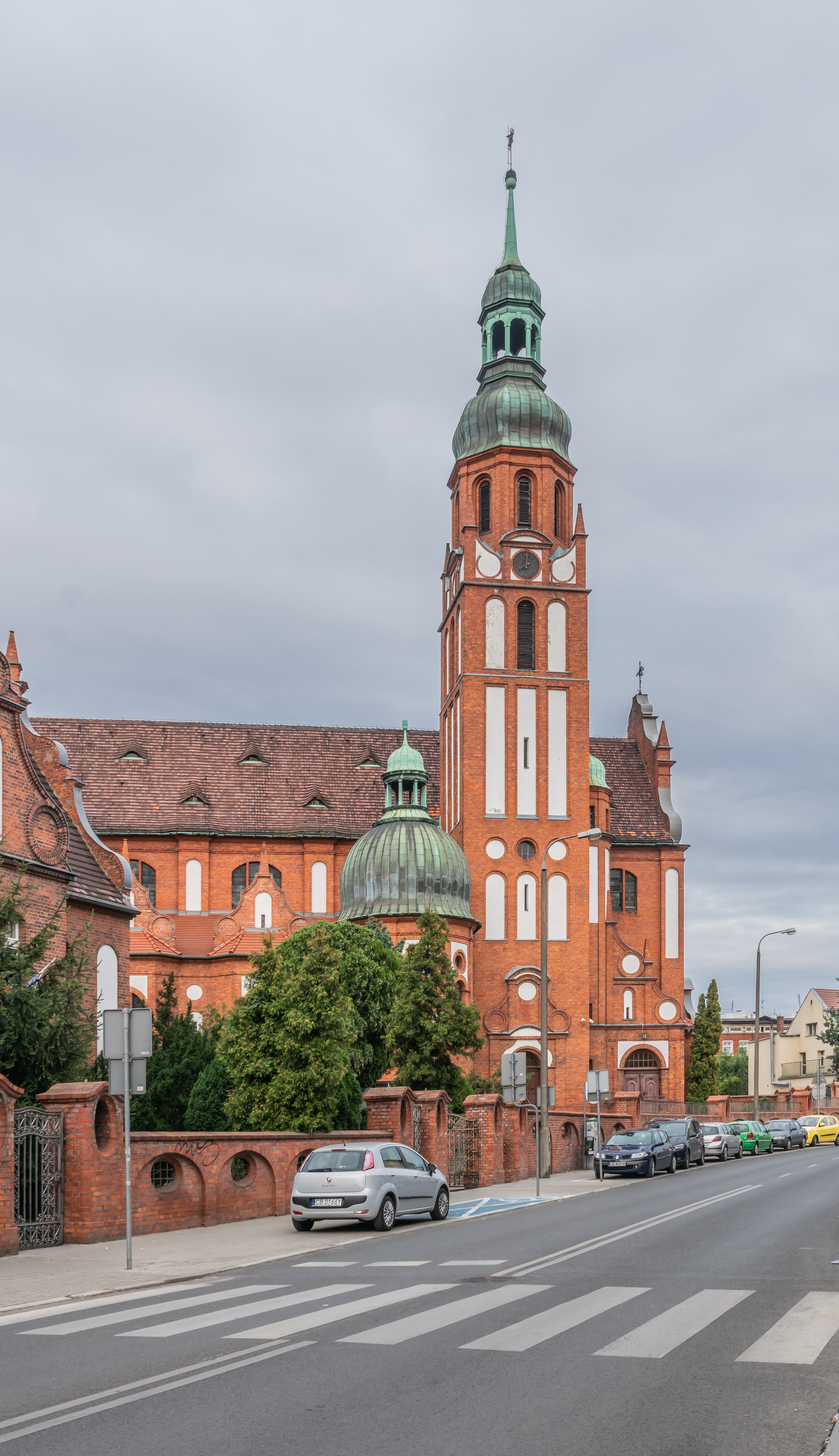 Holy Trinity church in Bydgoszcz, Kuyavian-Pomeranian Voivodeship, Poland